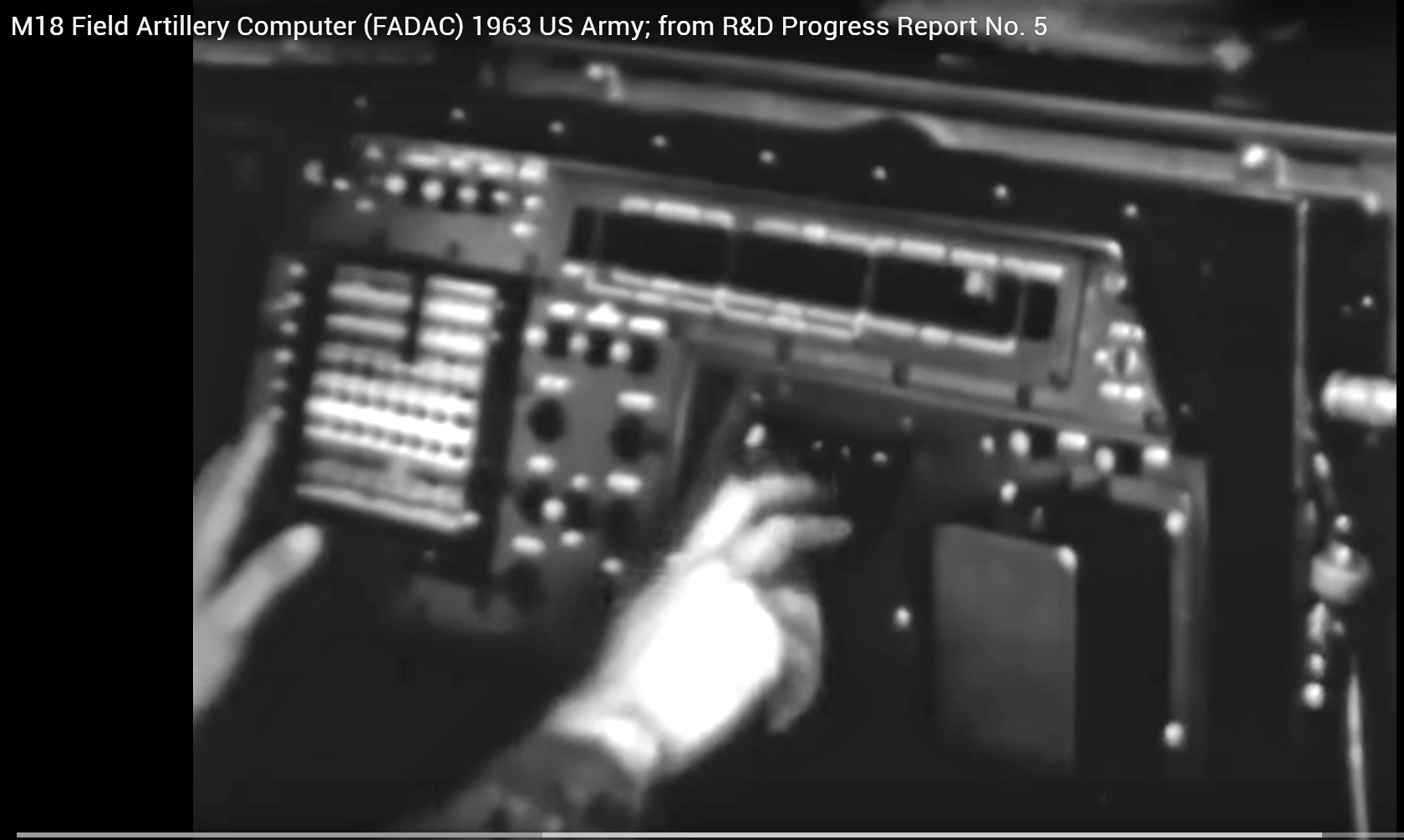 Screenshot of a film about the M18 model of the FADAC gun control computer